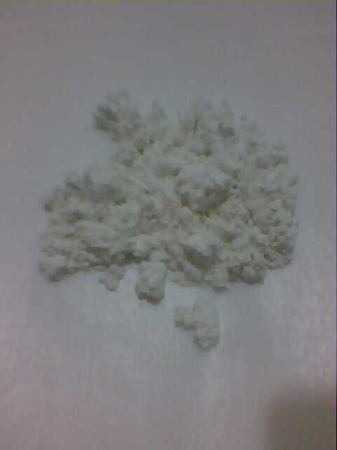 纯度超过99%的、在空气中吸收了二氧化碳和水蒸气的氧化镧，变得比较疏散（稀疏）、颜色略显暗淡。